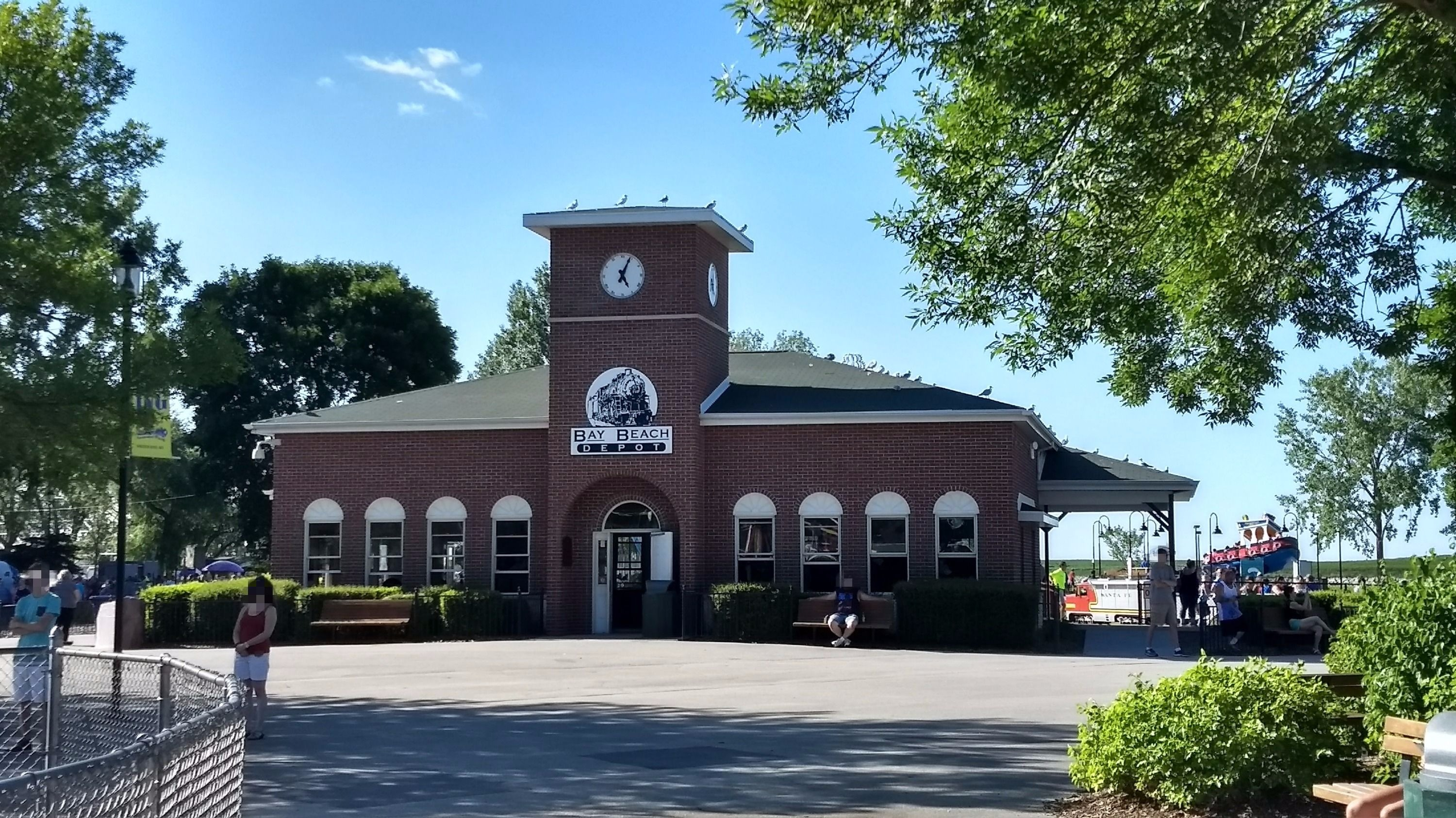 The Train Depot where the train ride boards at Bay Beach Amusement park